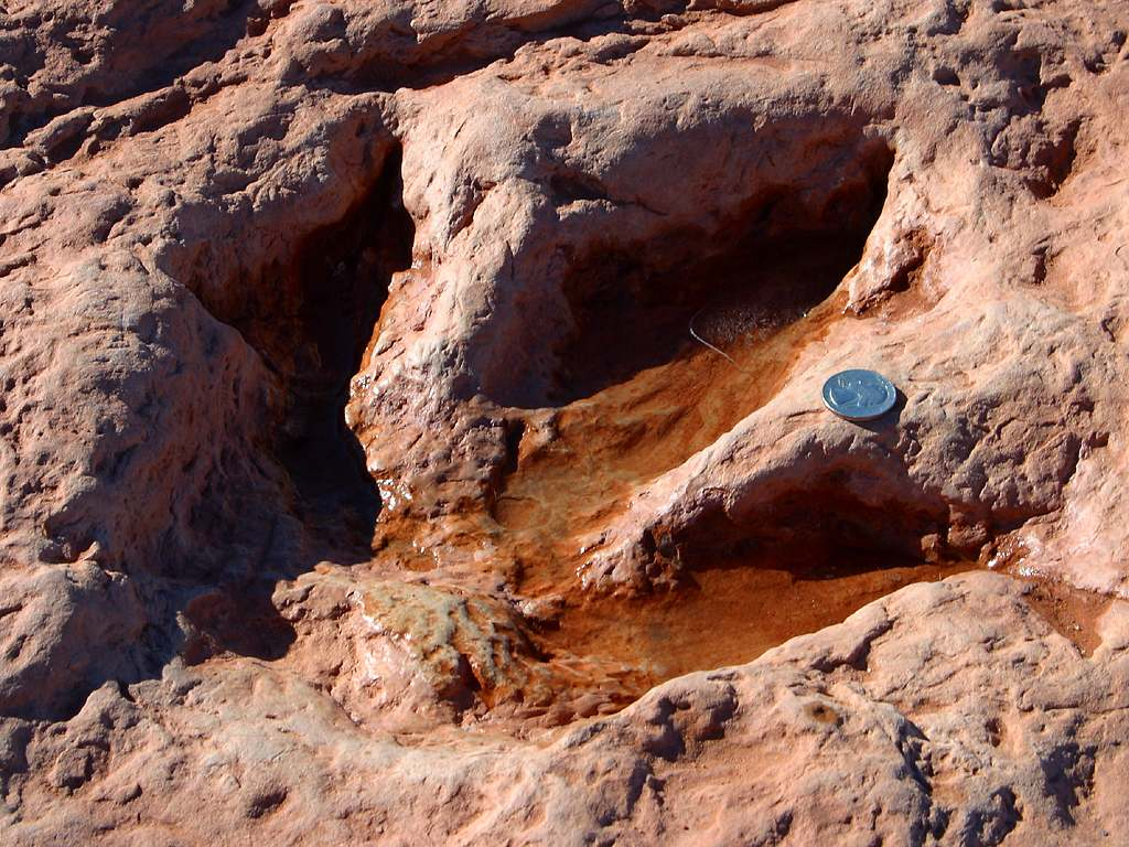 Eubrontes, a footprint of a theropod dinosaur, preserved in reddish sandstones of the Moenave Formation (Lower Jurassic), near Tuba City, north of Flagstaff, Arizona.[1] Scale: The coin is a US quarter dollar (25¢, diameter: 24.26 mm, 0.955 in) comparable in size to a 50 euro cent coin. Hence, the maximum width of the footprint is about 30 cm (1 ft). ↑ see pictures at at the Wayback Machine (archived on 26 February 2005); Note: The whole domain is for sale now and there was only one picture of the original webpage archived, but it clearly shows the imprint in question, inferrable from the adjacent surface features of the rock.